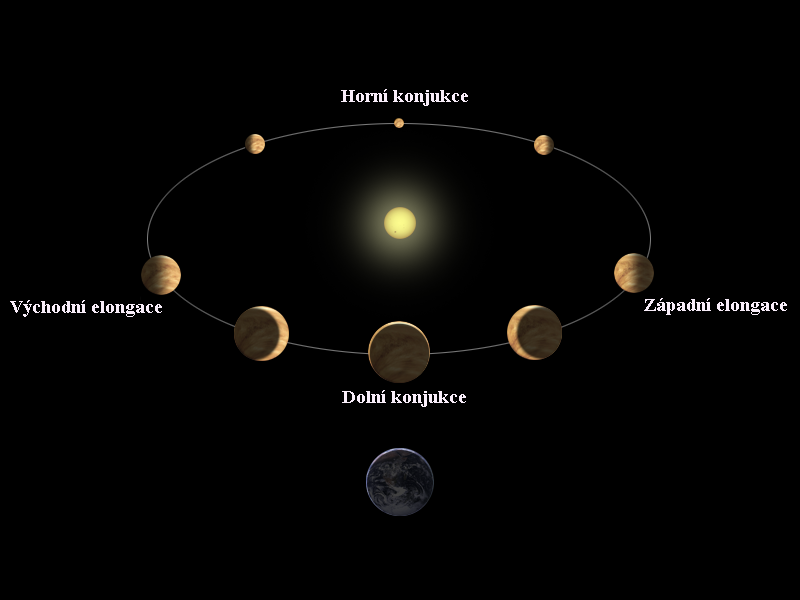 Phases of Venus in Czech